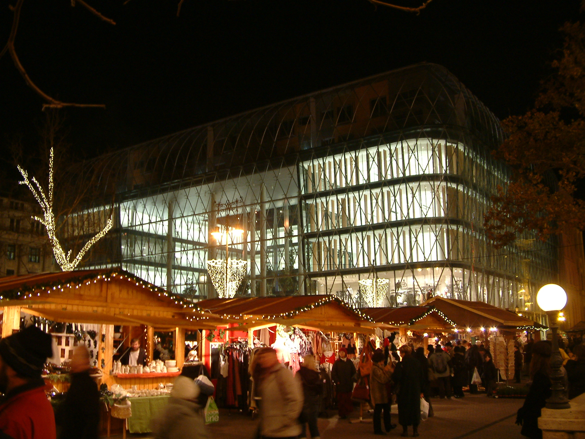 Christmas market at Vörösmarty Square, Budapest